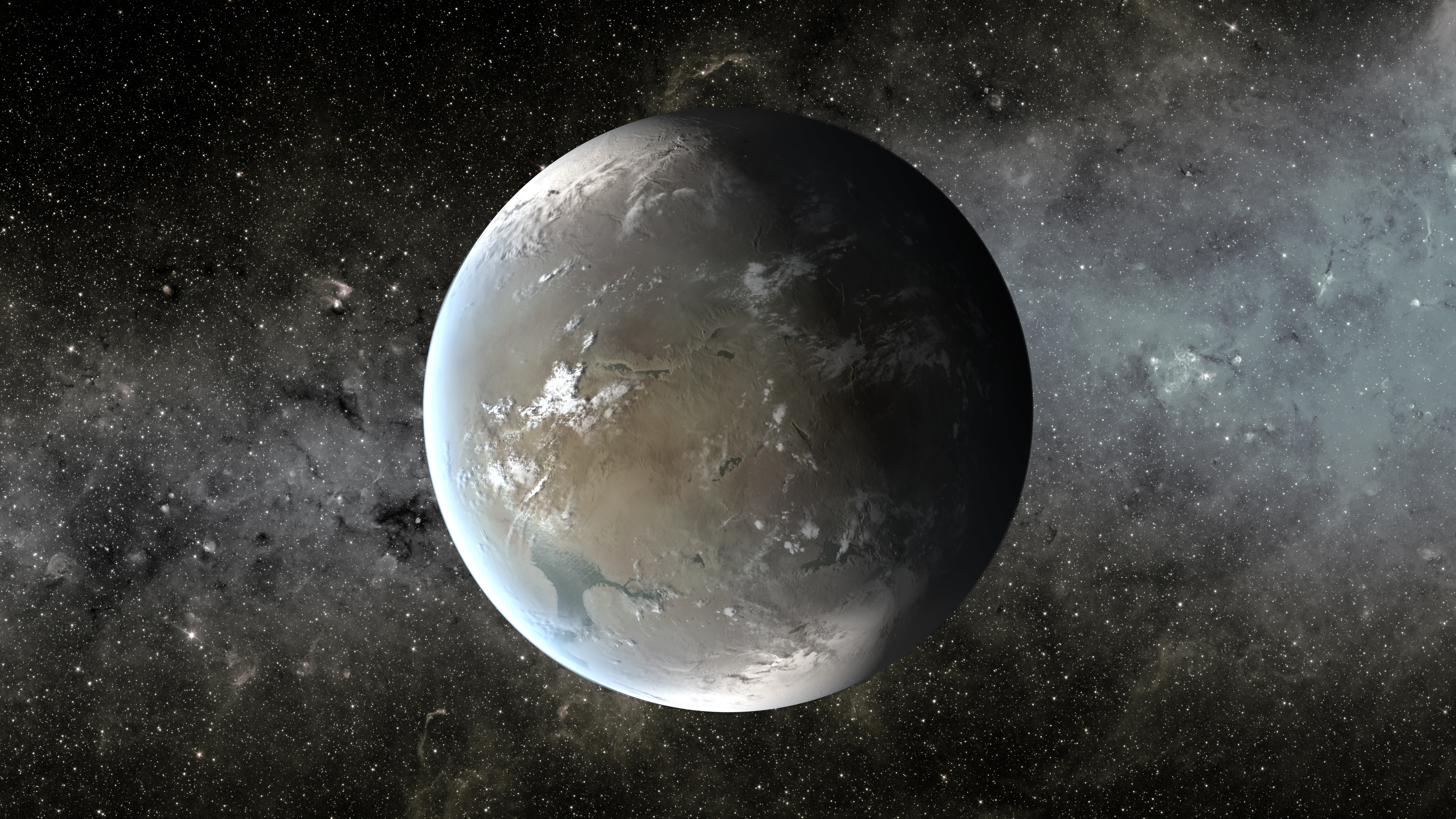 This artist's concept depicts Kepler-62f, a super-Earth-size planet in the habitable zone of its star.